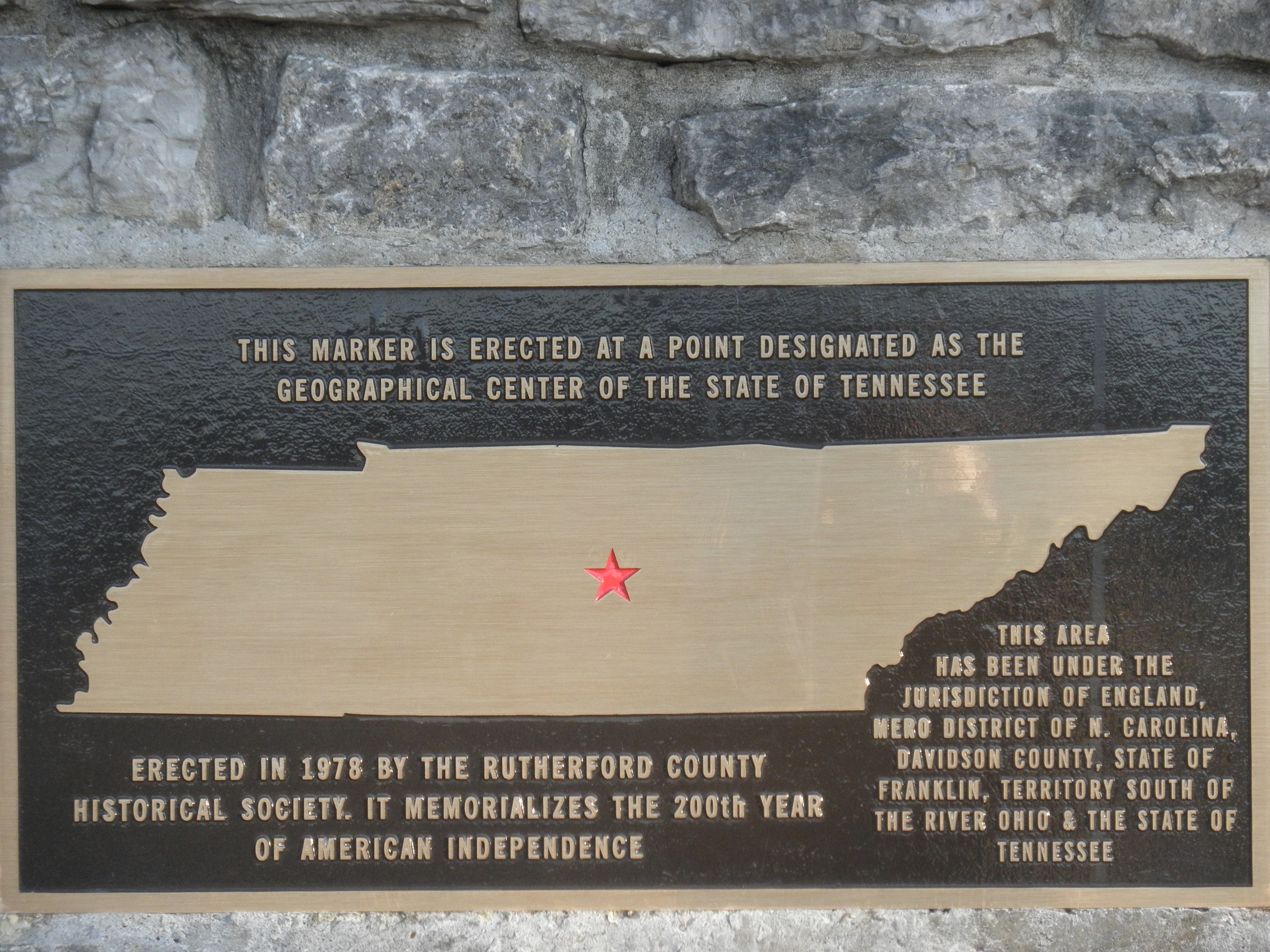 Plaque on a stone monument in Murfreesboro, Tennessee erected in 1978 designating the geographic center of the state.